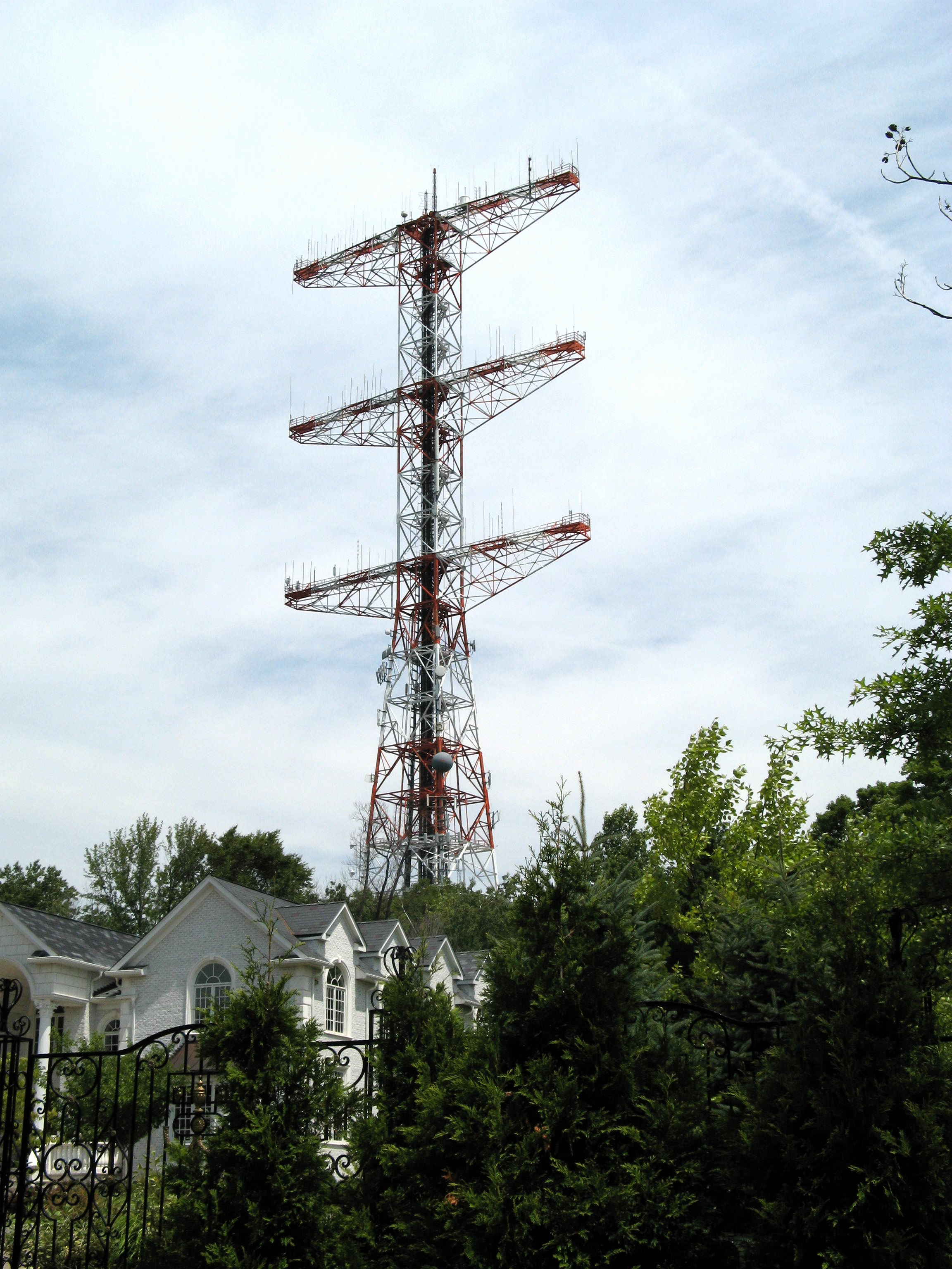 Armstrong Tower, radio tower located in Alpine, New Jersey, USA. This was the antenna of the first broadcast FM radio station, built by Edwin Armstrong in 1938.